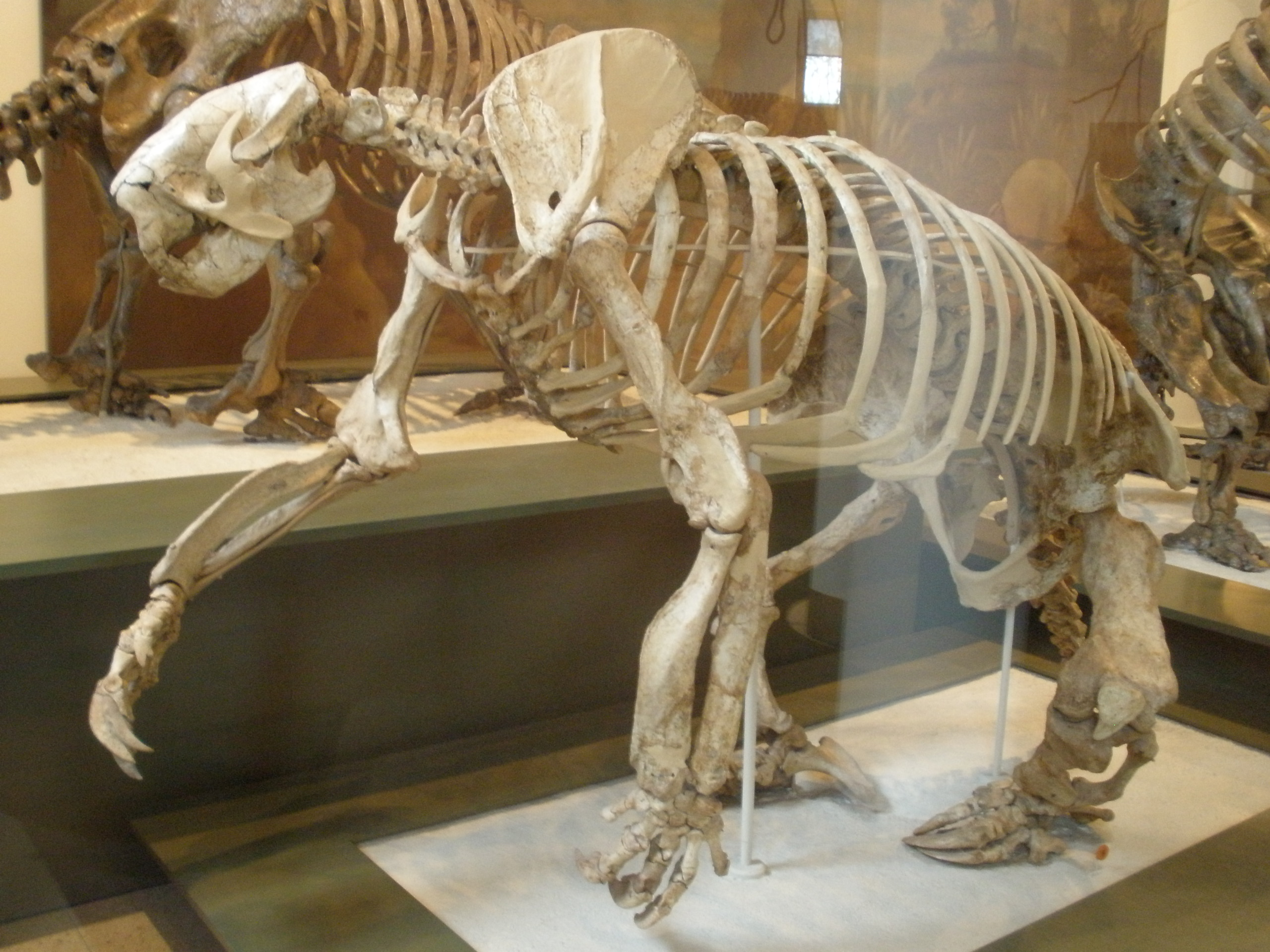 Skeleton of Megalonyx wheatleyi, a fossil ground sloth.